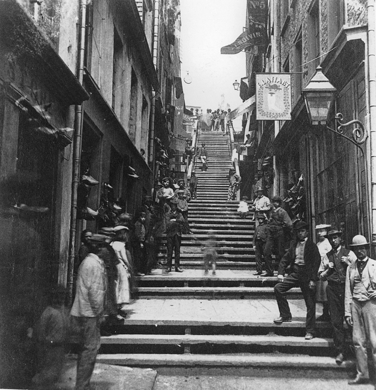 The Breakneck Steps, Québec, Quebec, Canada, circa 1870